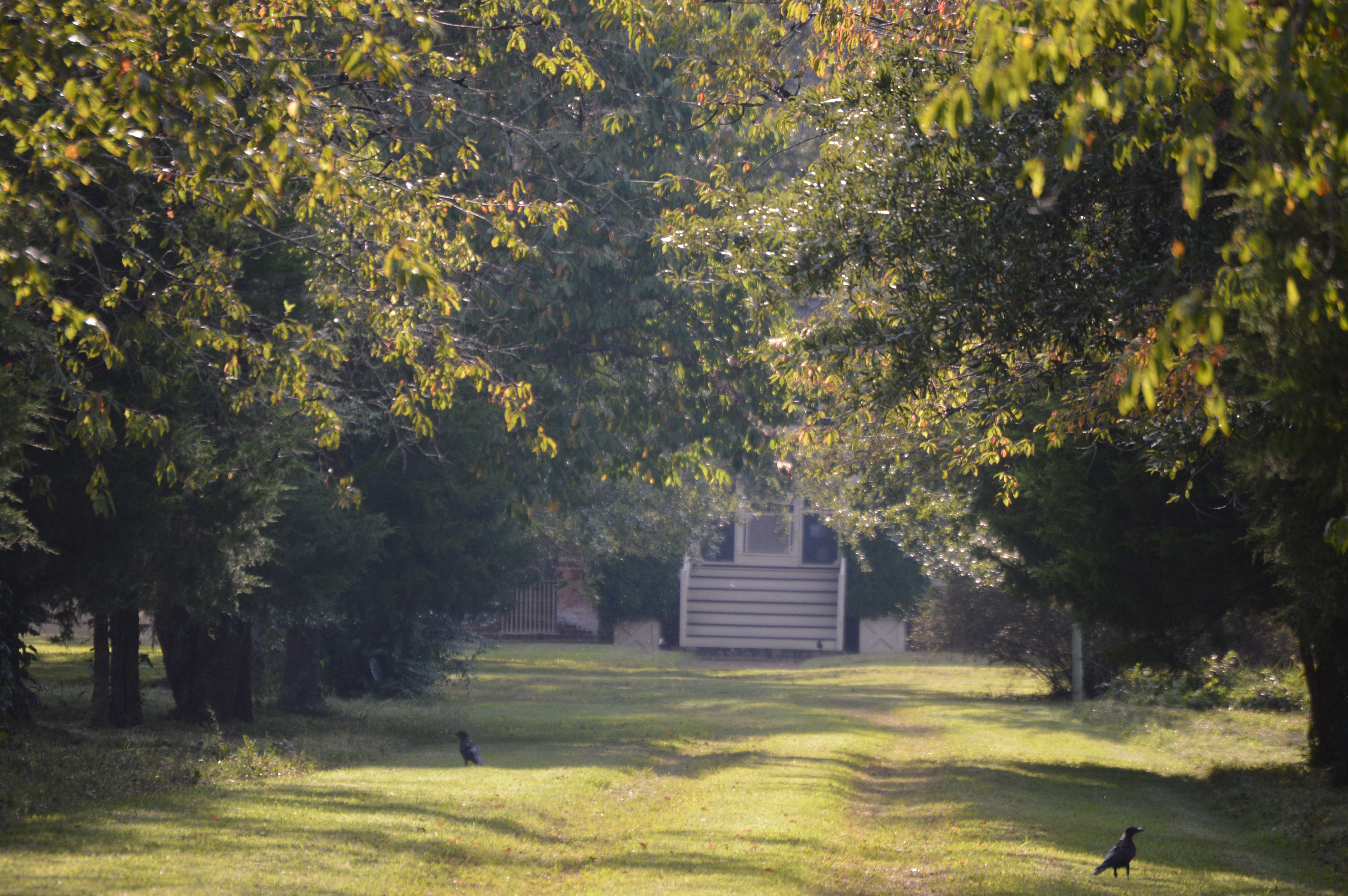 Driveway view (damaged by the sun) of Cherry Walk, located on Dunbrooke Road north of Millers Tavern in Essex County, Virginia, United States. It is listed on the National Register of Historic Places.